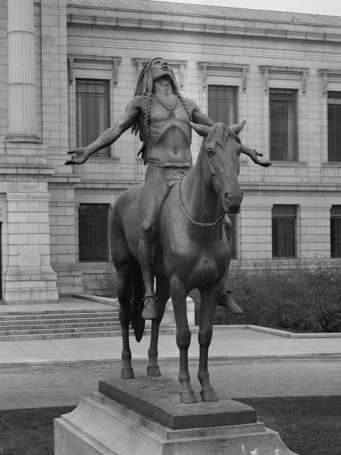 The Appeal to the Great Spirit, Cyrus E. Dallin, Boston, Mass.